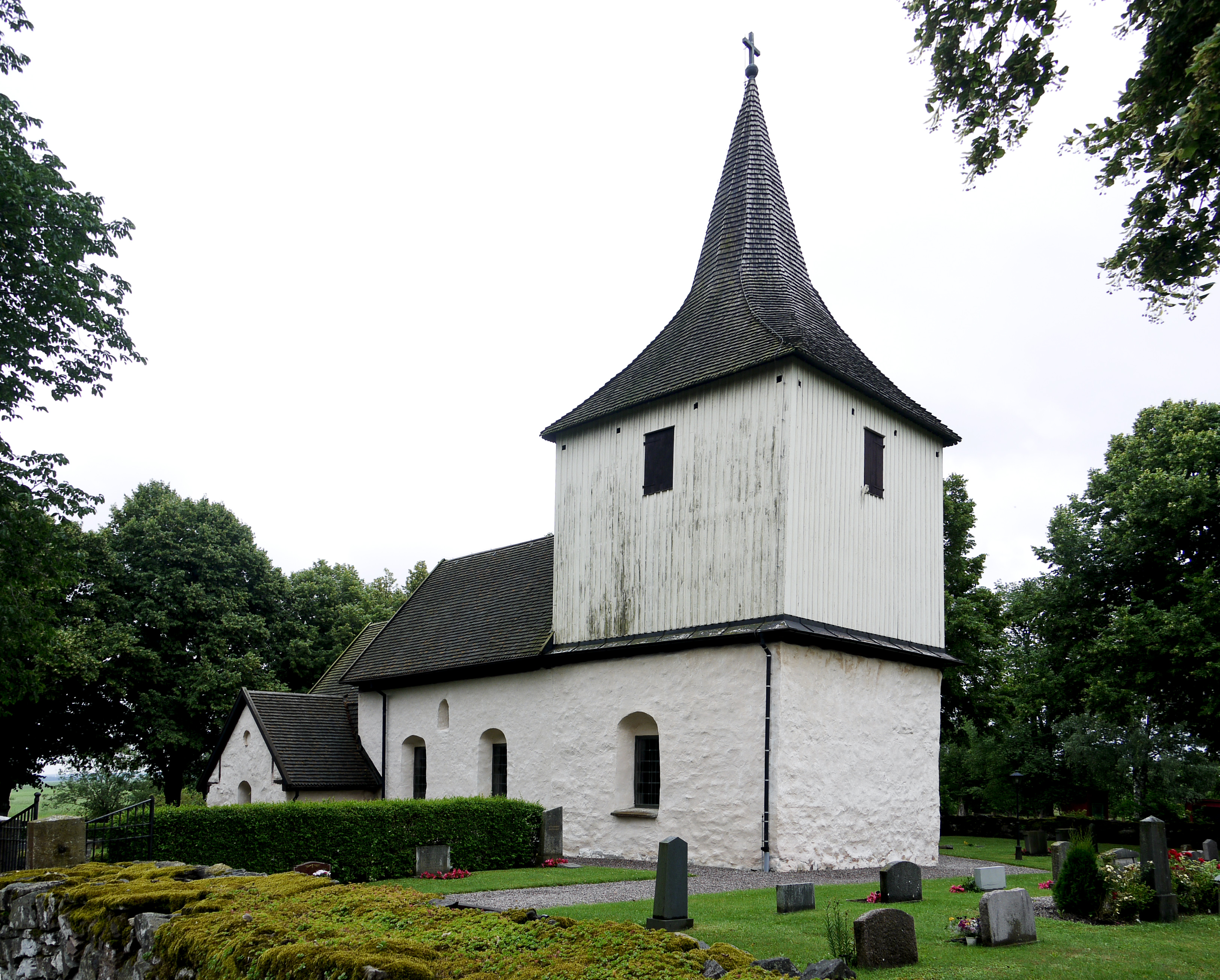 Väversunda kyrka/church. Diocese of Linköping, Sweden.